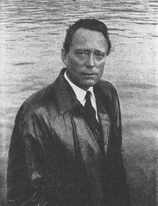 A portrait of the author Per-Erik Rundquist.